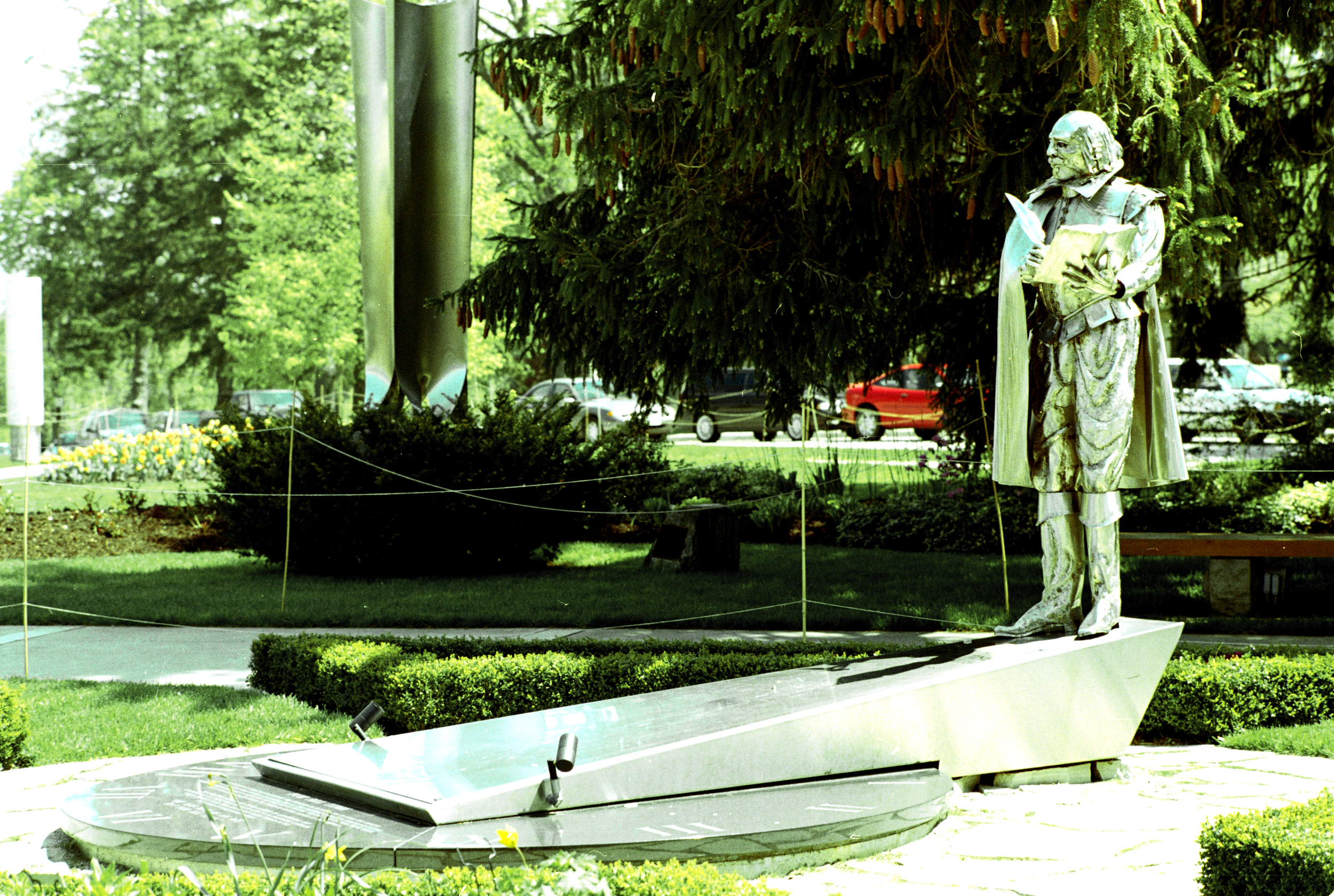 Statue of William Shakespeare and Cody Bell in Stratford Ontario Photograph by Gisling